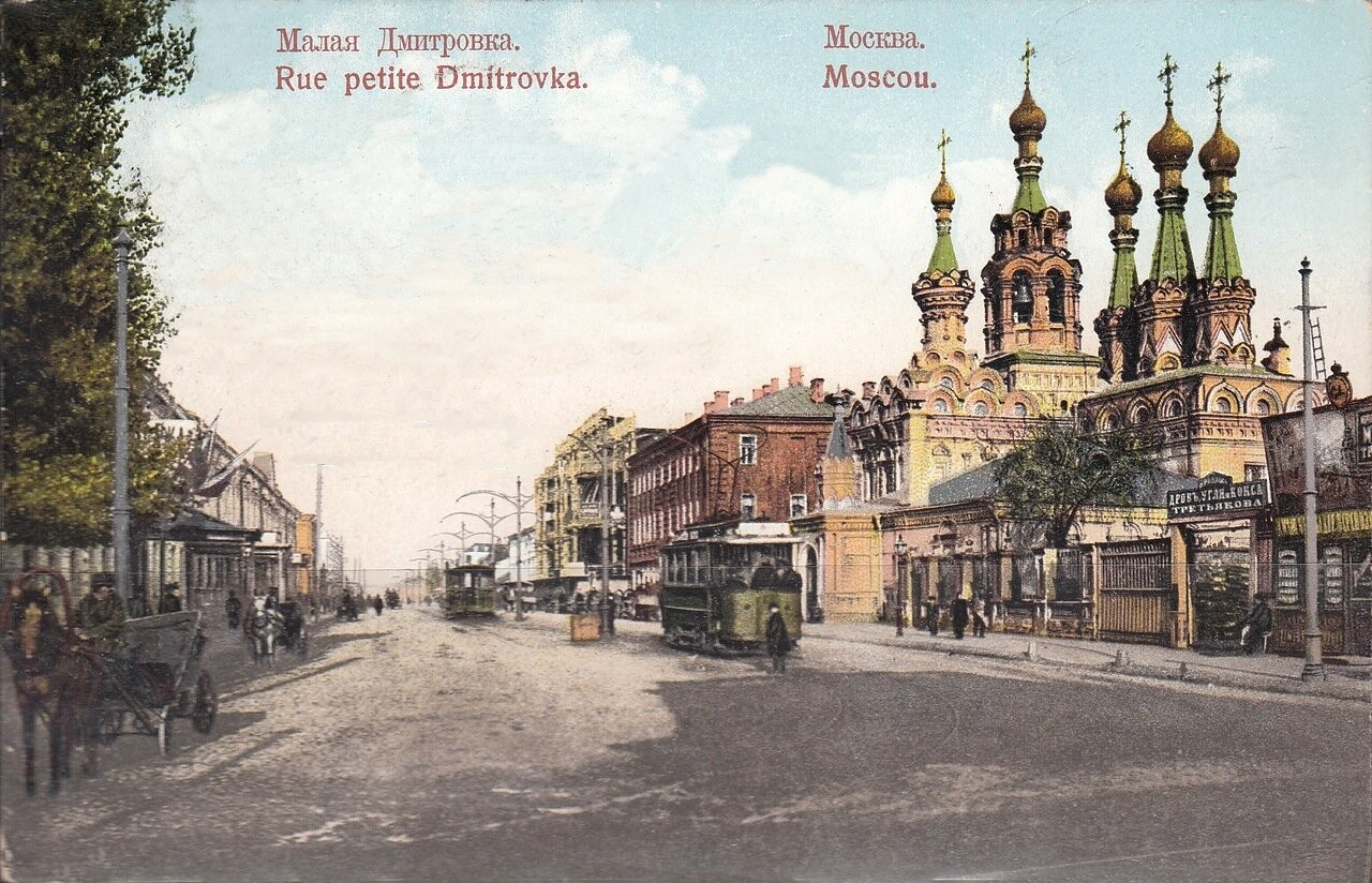 pre-revolutionaty russian postcard of Malaya Dmitrovka Street